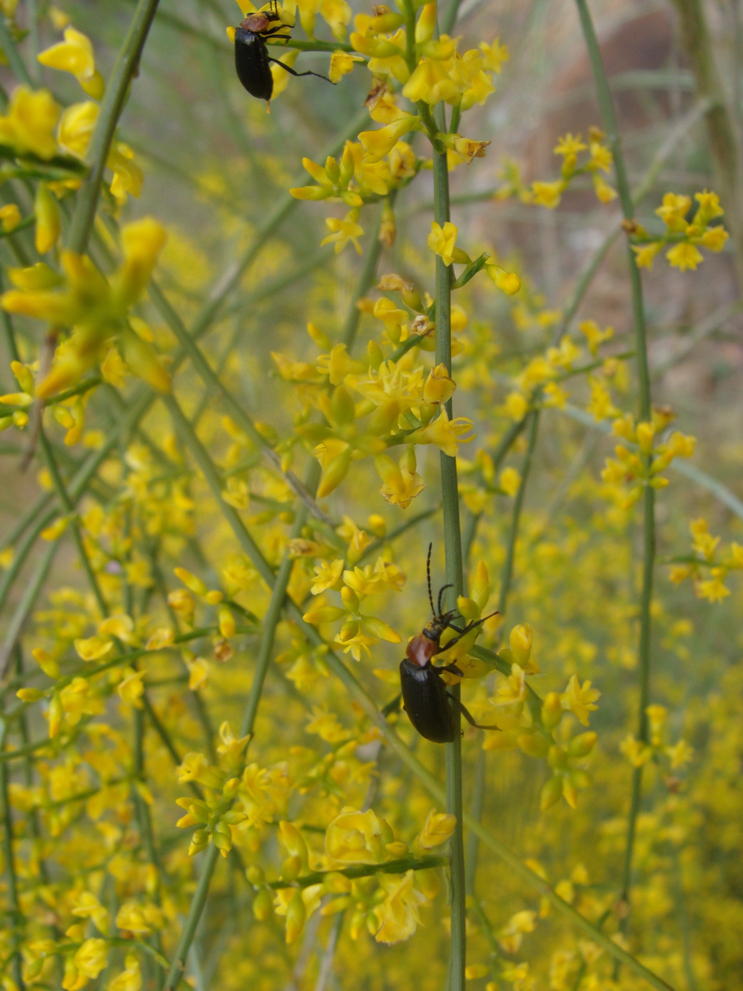 Retama sphaerocarpa, in the National Park of Monfragüe, Cáceres, Extremadura, Spain.